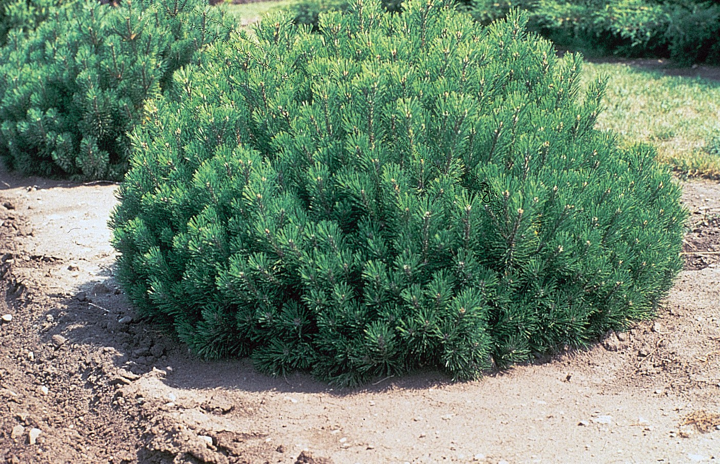 Mountain Pine. Shrub (full grown tree).